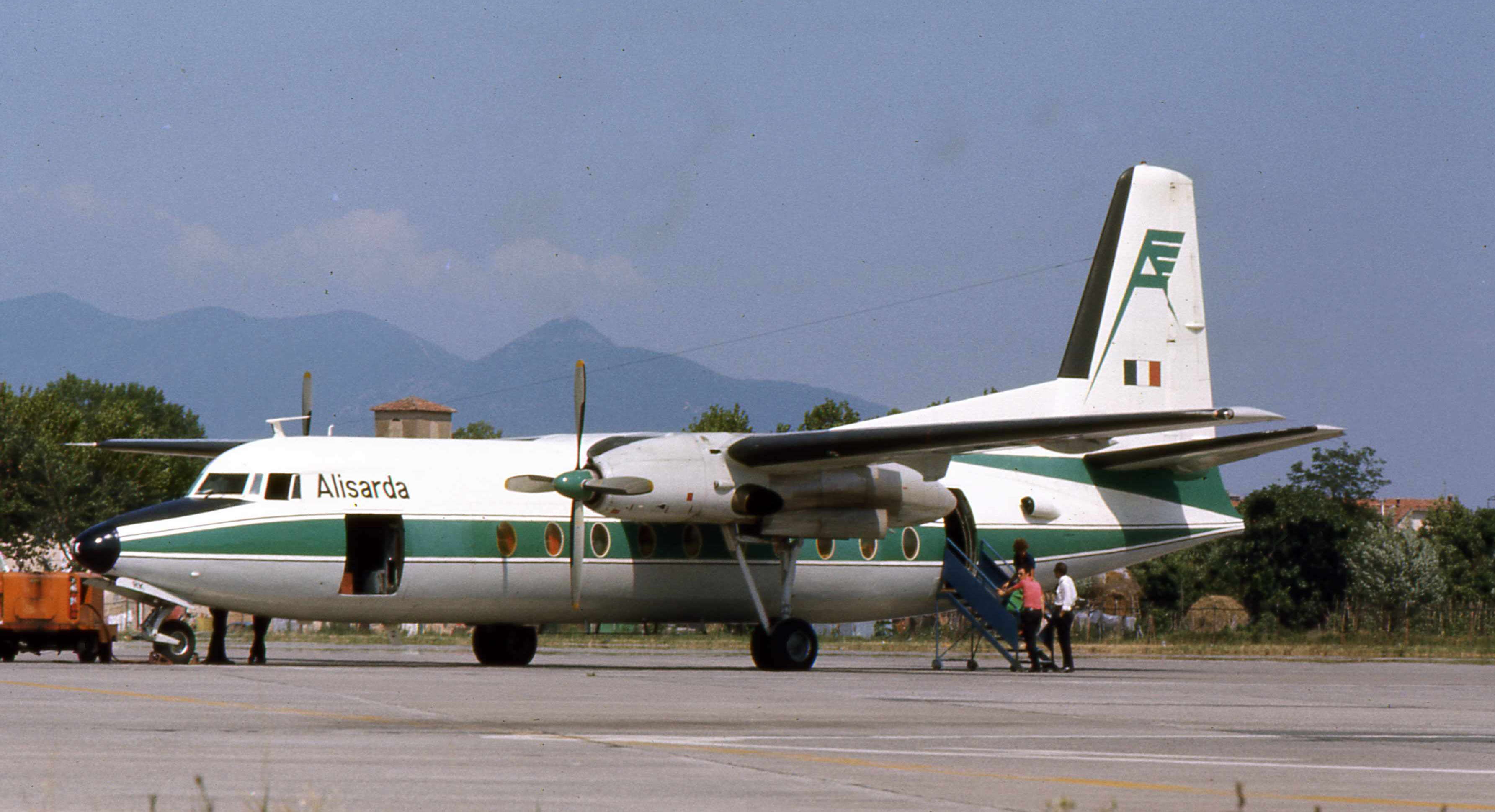 Delivered to Philippine Airlines on April 7, 1964 as PI-C509. Delivered to Alisarda in Mai 1971 as I-SARK. Delivered to TAT European Airlines in December 1974 and registered F-BVTO. Delivered to Uni-Air in August 1980 as F-BIUK. Sold in December 1991 to Aero Stock, cancelled registration in April 1993 and stored at Le Bourget Airport, transferred to Woensdrecht Air Base in November 1996 and broken up.